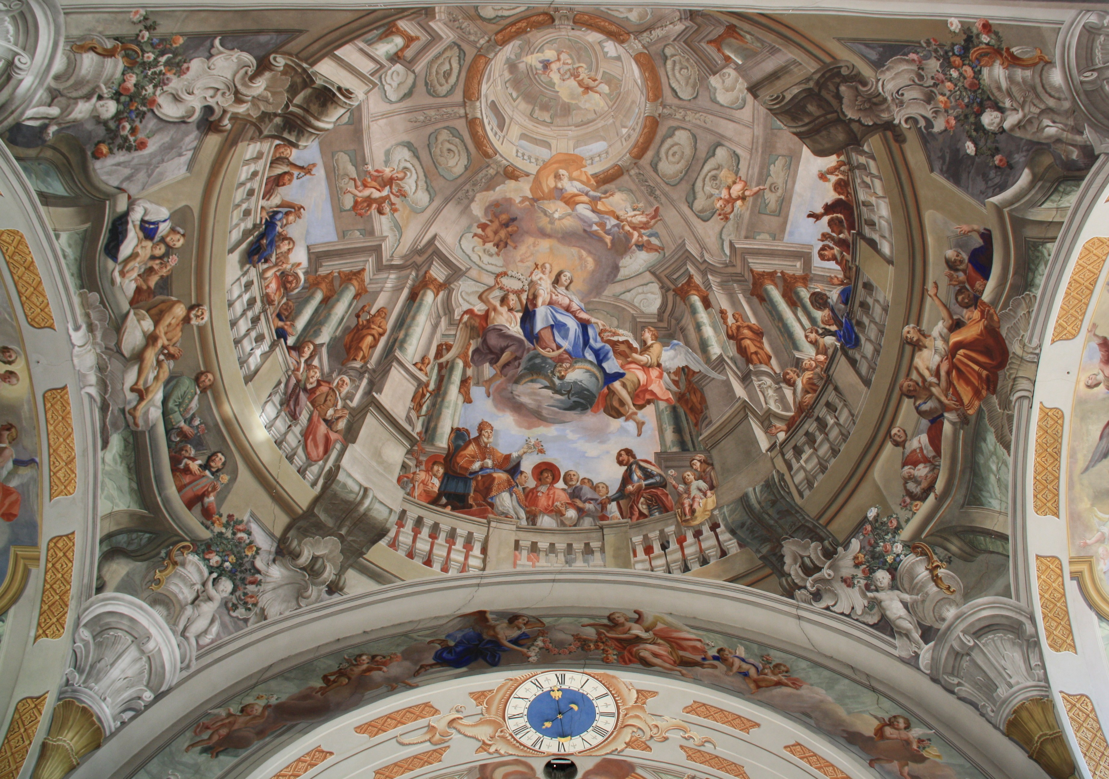 Austria, Tyrol, Telfes, Hl. Pankratius. The ceiling fresco in the main oval dome gives the illusion of depth. The painting represents John of Austria delivering the rosary to the Pope after the victory of the Battle of Lepanto.